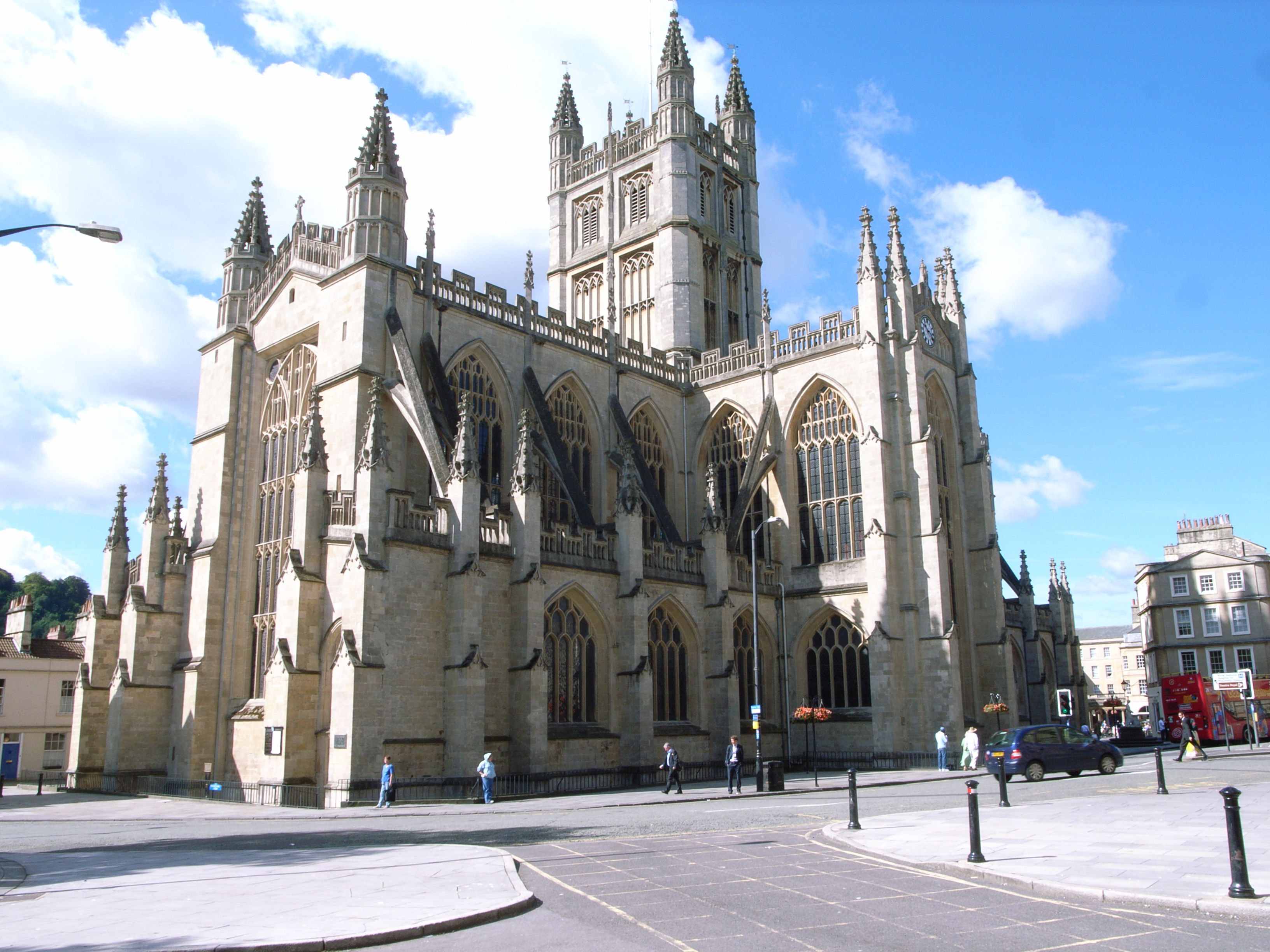 Bath Abbey (16th century, with 19th century restoration). View from the North East.